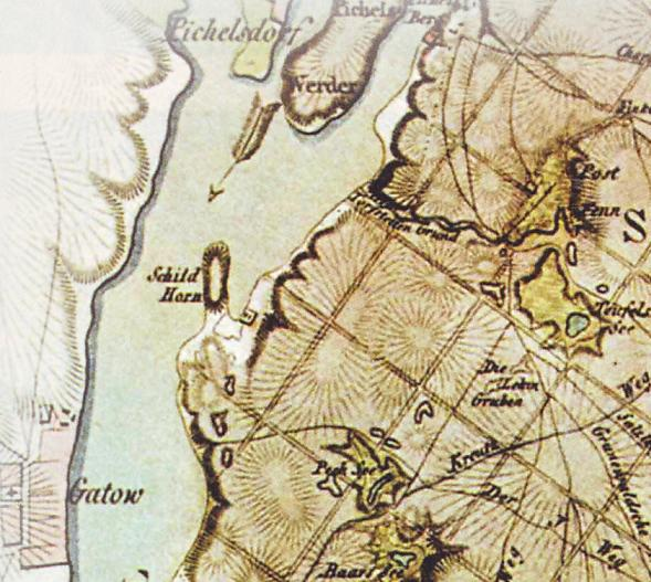 Map (part of the map „Der Teltowische Creis“ from 1788) of Schildhorn. Schildhorn (german for: shieldhorn) is a headland in the river Havel, situated in the protected area Grunewald in the homonymous quarter Grunewald of Berlins borough Charlottenburg-Wilmersdorf, Germany.